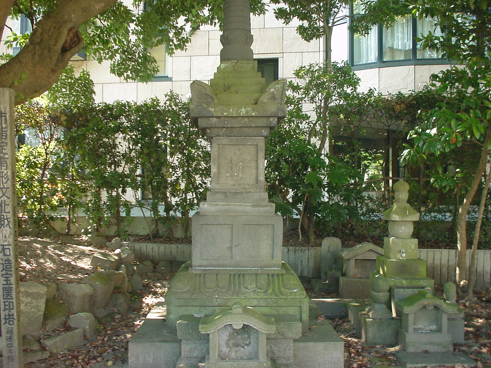 Houkyo-intou (Hatakeyama Shigeyasu's Tomb) in Kamakura, Kanagawa